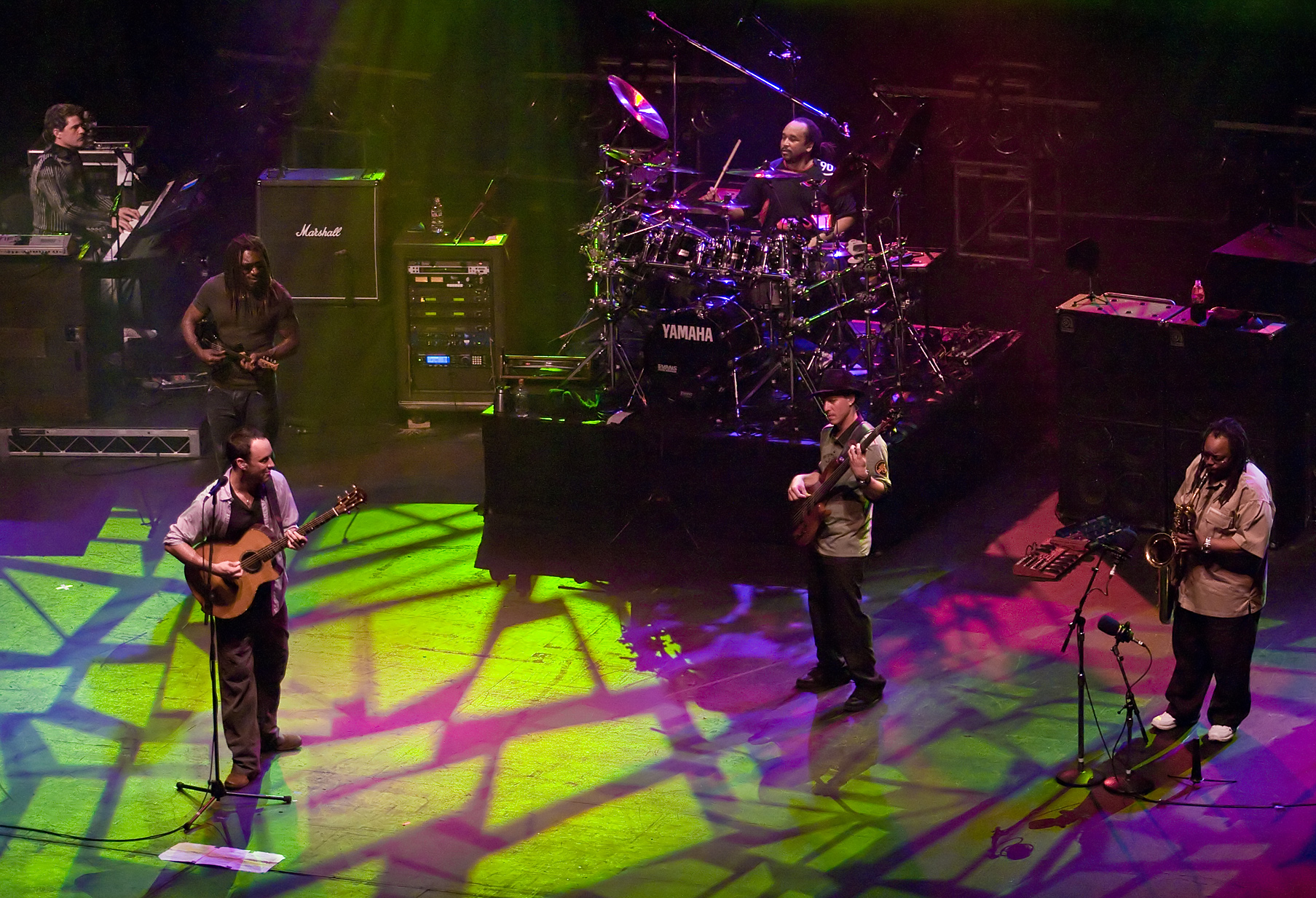 A photo of the entire Dave Matthews Band in action at the Palais Theatre in Melbourne during their first tour of Australia.